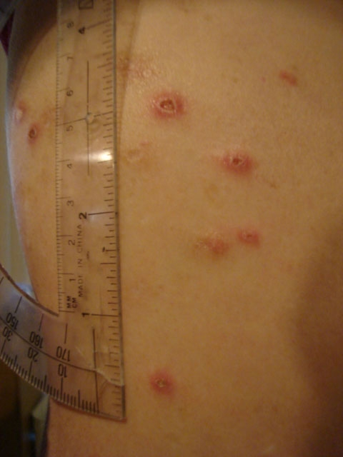 Ulcerous lesions that occurred in somewith with inflammatory bowel syndrome.